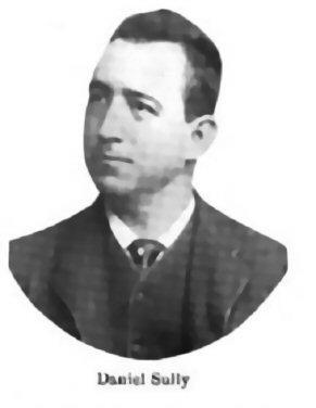 Daniel Sully ca. 1885